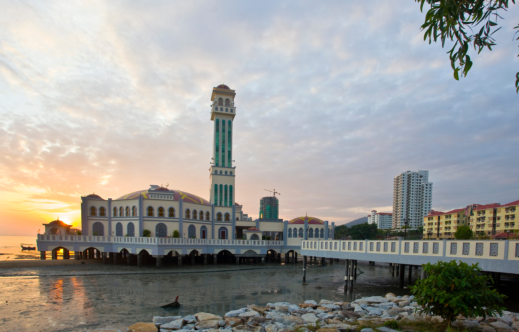 Penang Malaysia Sunrise at Tanjong Bungah Mosque